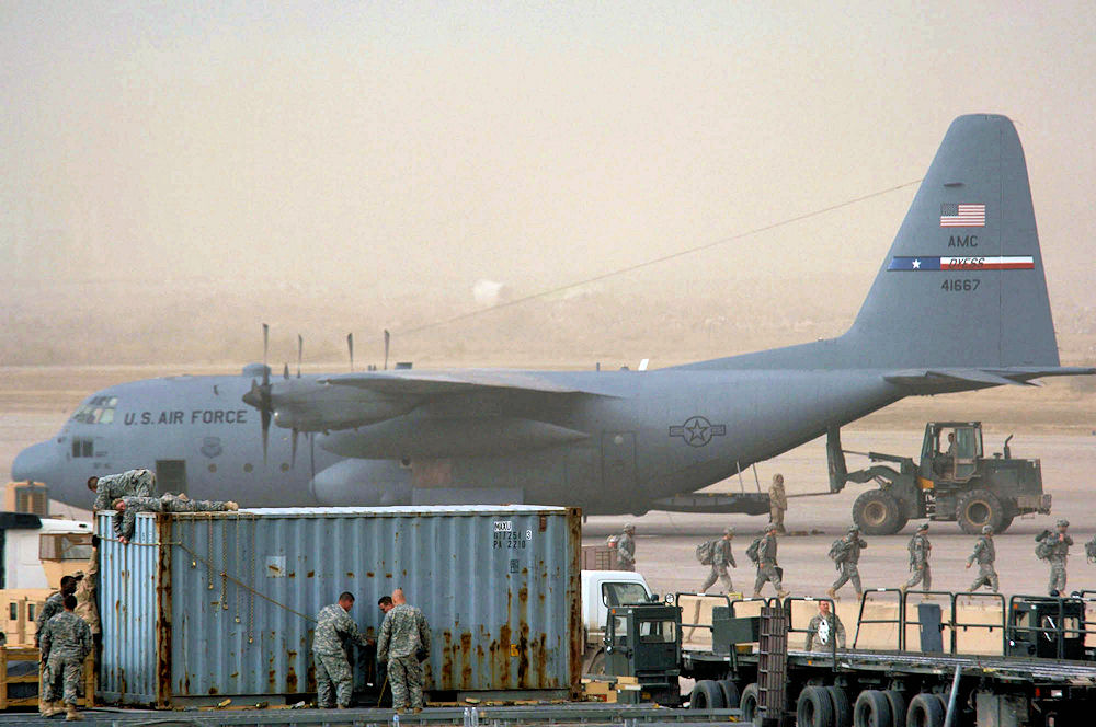 Airfield operations continue despite a dust storm Jan. 30 at Sather Air Base, Iraq. Sather AB is located on the west side of Baghdad International Airport and base Airmen move 6,200 passengers weekly and more than 1,700 tons of cargo weekly. Aircraft is deployed from Dyess AFB to the 447th Air Expeditionary Group.